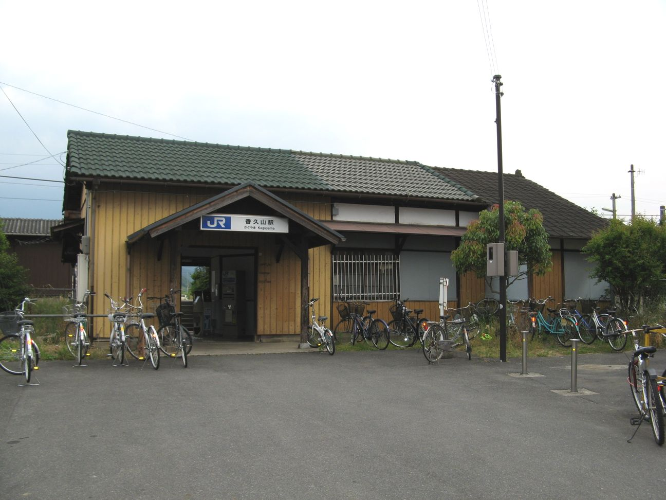 Kaguyama Station in Kashihara, Nara Prefecture, Japan. Taken on 4 June 2007 and retouched by Bakkai